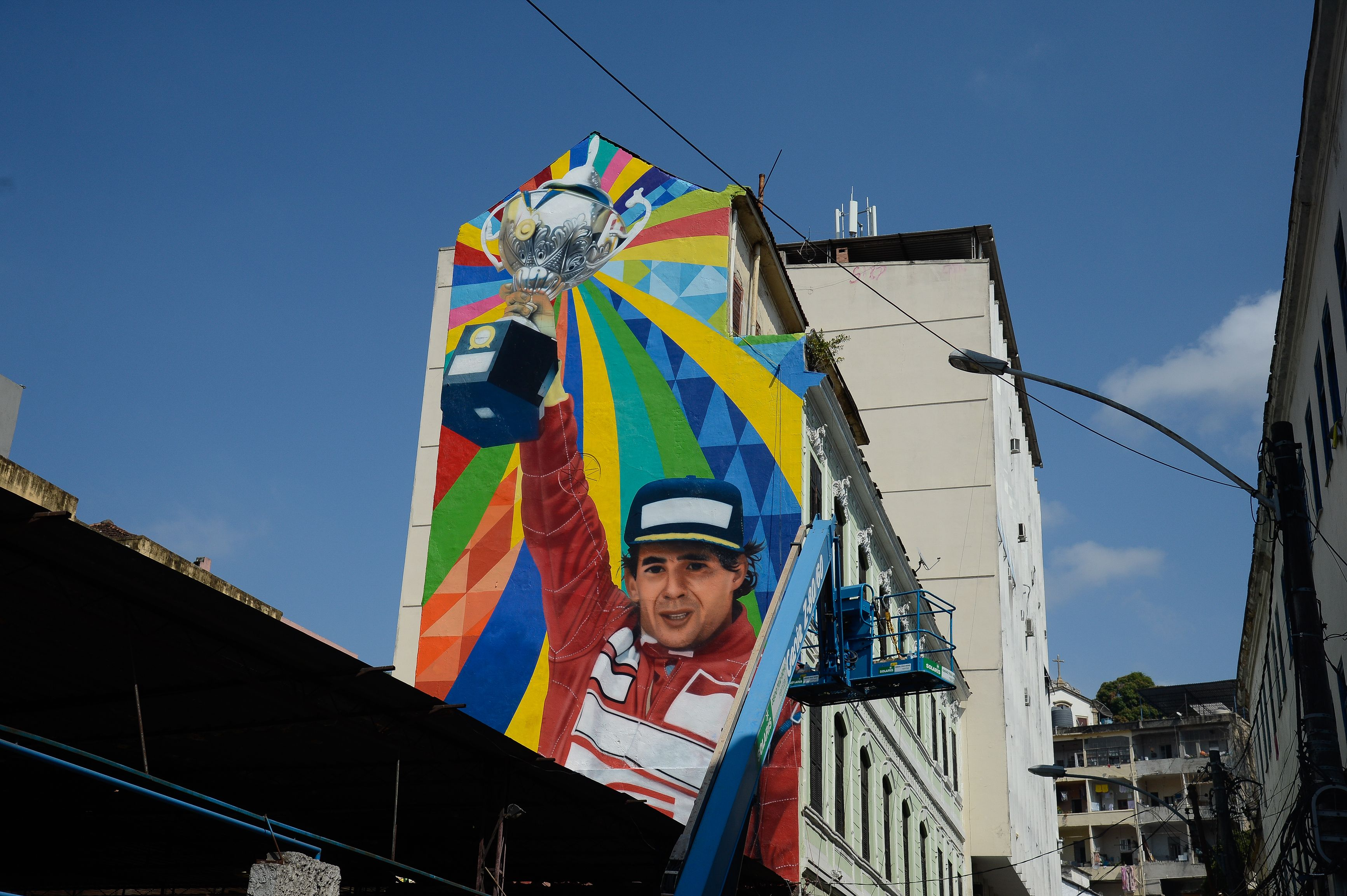 Street art in Rio de Janeiro at the 2016 Olympics